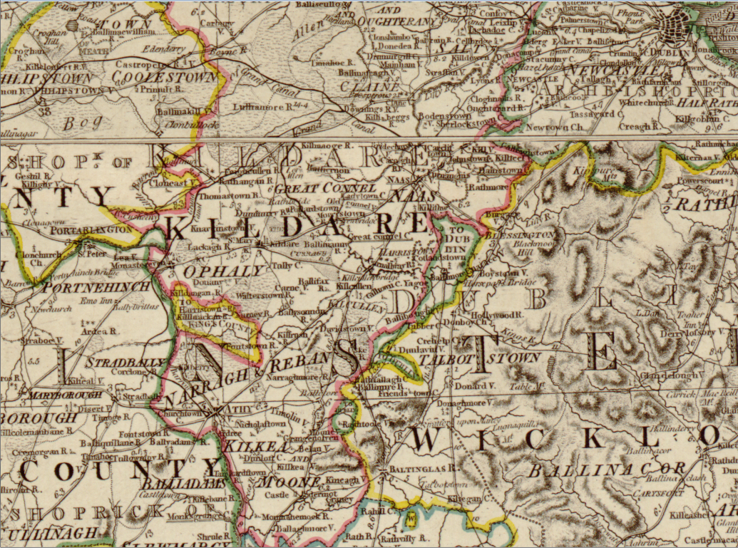 Detail of County Kildare from Daniel Augustus Beaufort's 1797 map of Ireland. Contributors: Daniel Augustus Beaufort (1739–1821) William Faden (1749–1836) Samuel John Neele (1758–1824)